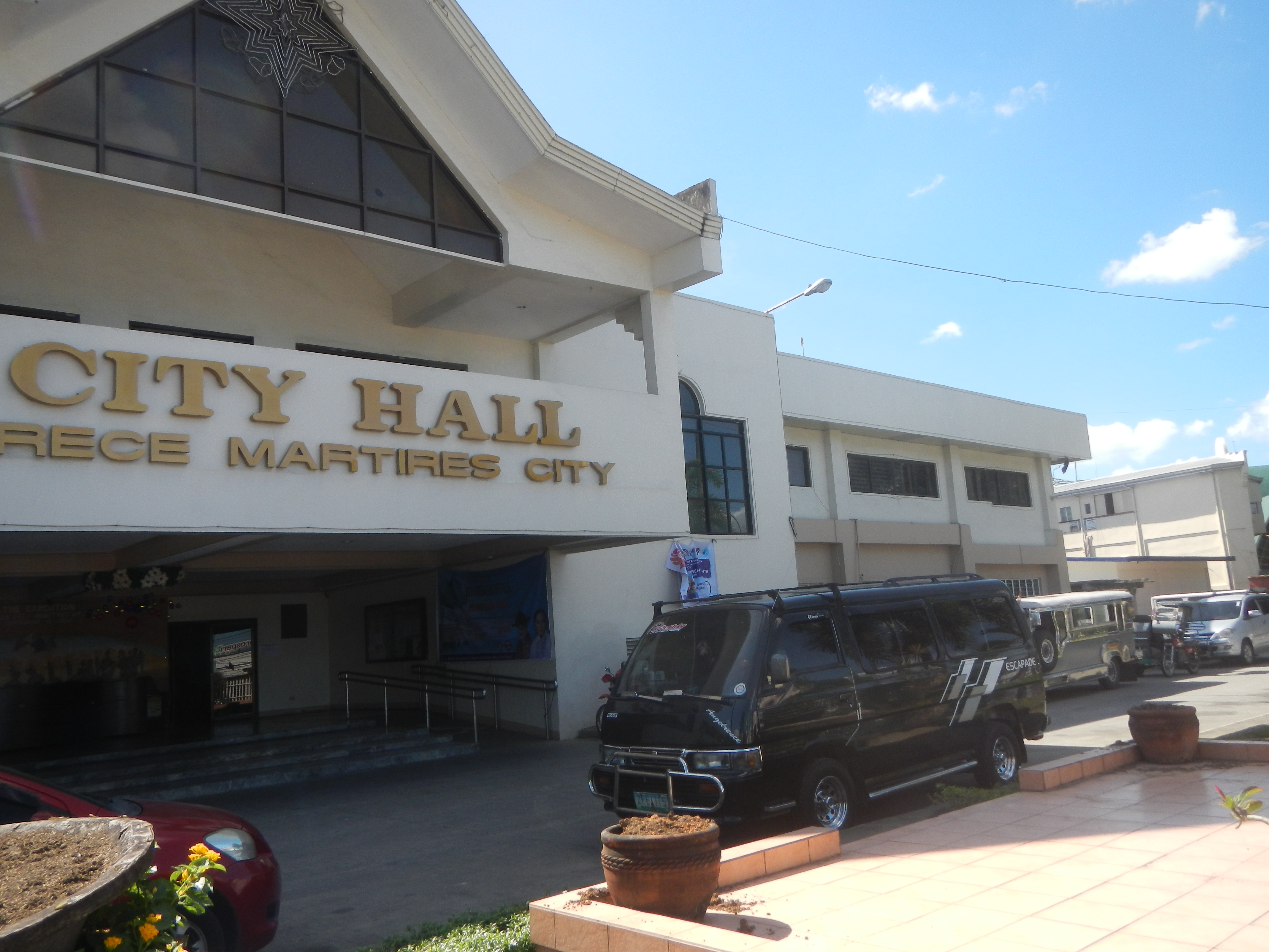 Trece Martires City Hall Governor's Drive (City of Trece Martires, Cavite) Calibuyo, Tanza, Cavite Saint Jude Thaddeus Parish Church of Trece Martires Saint Jude Parish School (City of Trece Martires, Cavite) Luciano (Poblacion), City of Trece Martires, Cavite Colegio de Amore (City of Trece Martires, Cavite) Inocencio, City of Trece Martires, Cavite San Gregorio Magno Parish Church (Inocencio, City of Trece Martires, Cavite) Roman Catholic Diocese of Imus Barangay San Agustin (Poblacion), City of Trece Martires 14°17'3"N 120°51'23"E Luciano (Poblacion), City of Trece Martires 14°16'43"N 120°52'14"E Inocencio, City of Trece Martires 14°15'17"N 120°52'37"E De Ocampo 14°17'46"N 120°51'55"E Trece Martires Tanza–Trece Martires Road corner Trece Martires–Indang Road towards Aguinaldo Highway corner Governor's Drive Governor's Drive (City of Trece Martires, Cavite) Philippine highway network (Note: Judge Florentino Floro, the owner, to repeat, Donor Florentino Floro of all these photos hereby donate gratuitously, freely and unconditionally all these photos to and for Wikimedia Commons, exclusively, for public use of the public domain, and again without any condition whatsoever).